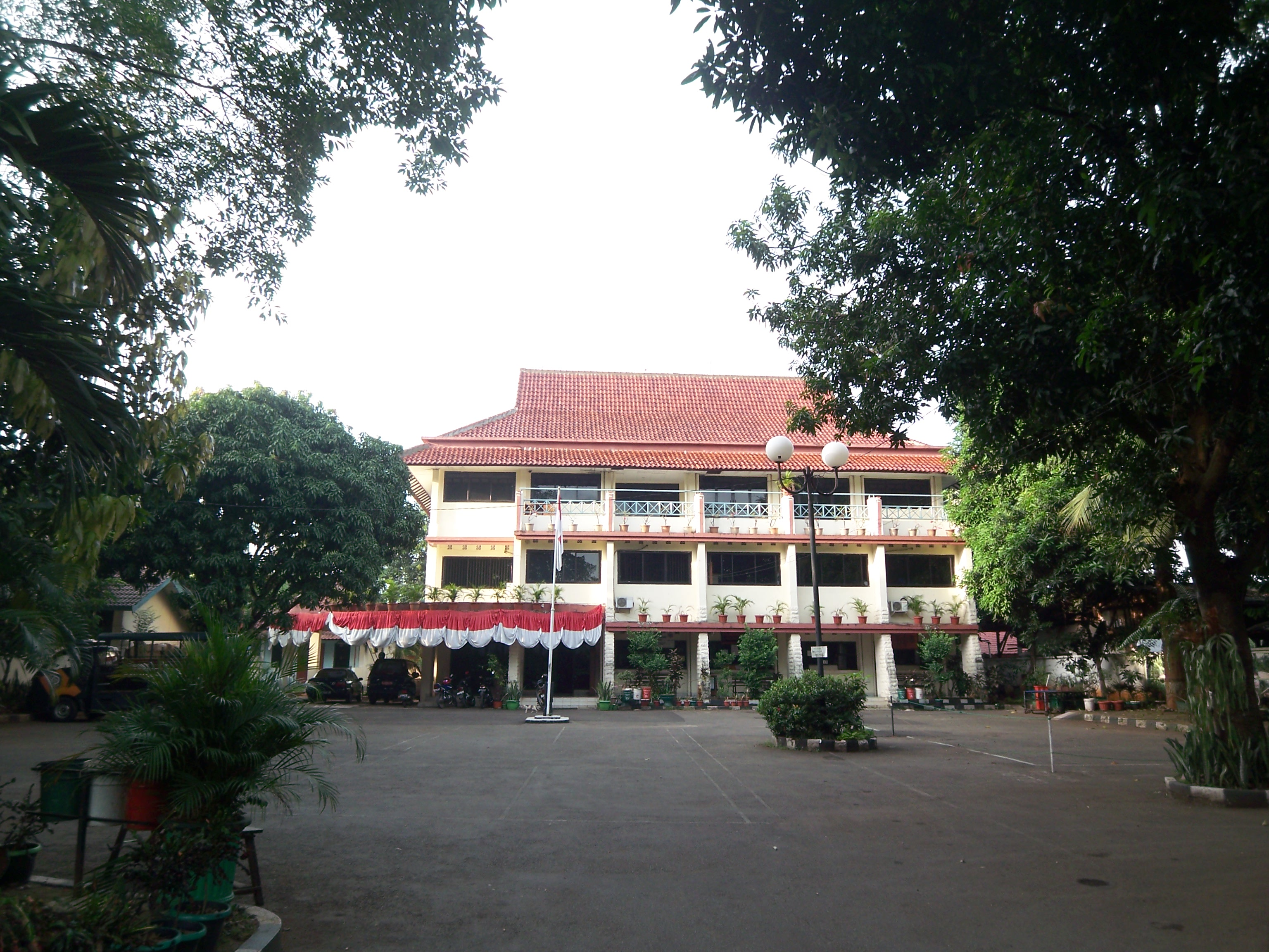 This is a picture of the building of kelurahan of Pondok Kelapa, Kecamatan (subdistrict) Duren Sawit, Jakarta Timur, Indonesia